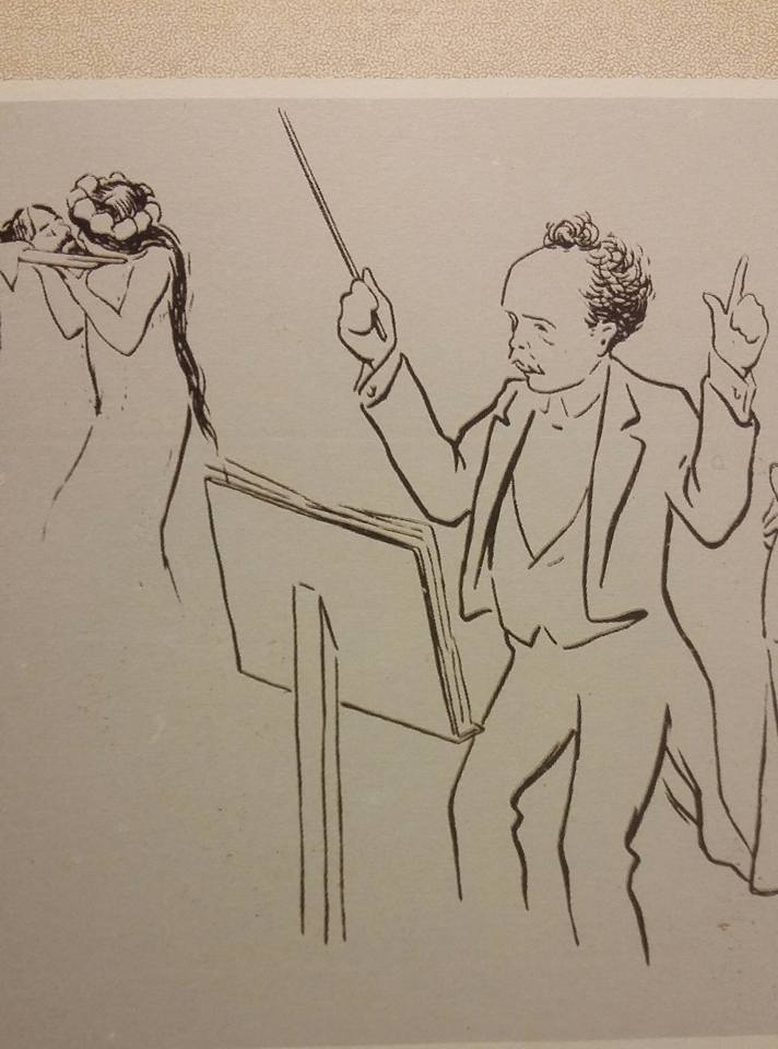 Cartoon of Strauss conducting Salome at its French premier.